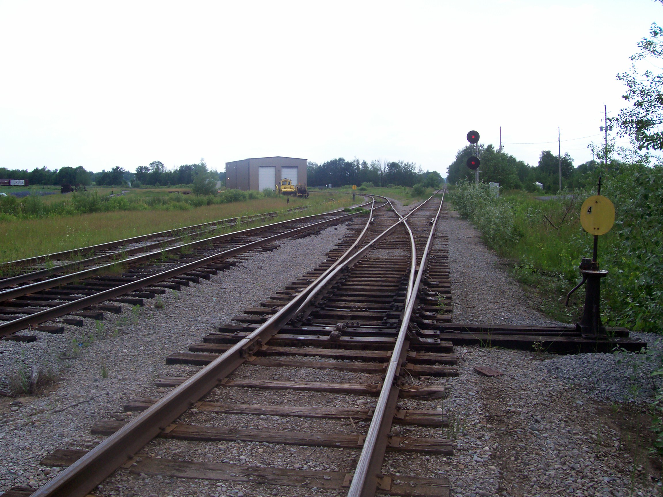 BCRY Yard at Utopia, Ontario in June 2006. A ballast regulator and the engine shed are visible. Cars dropped off by the CPR can be seen in the background to the far left.